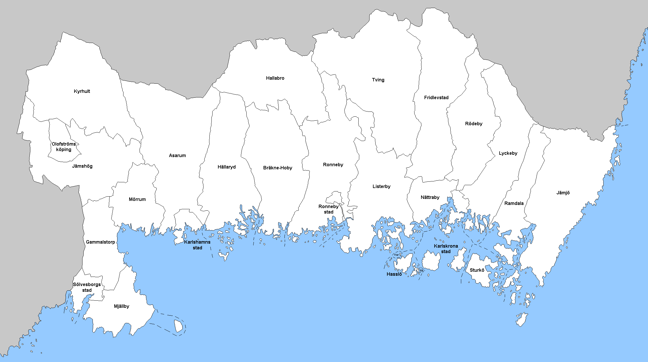 Municipalities in Blekinge, 1952